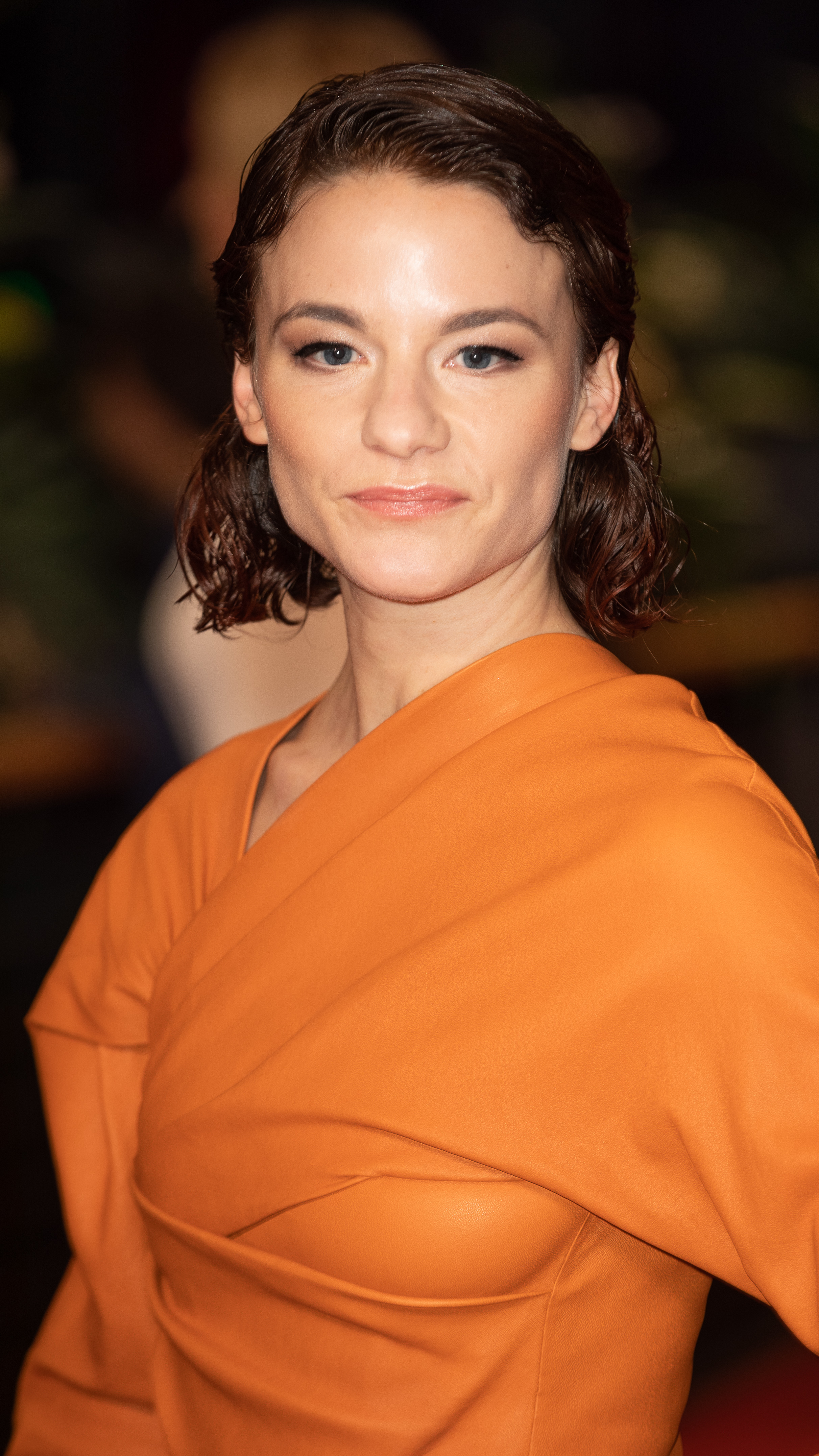 Valerie Pachner at Berlinale 2020